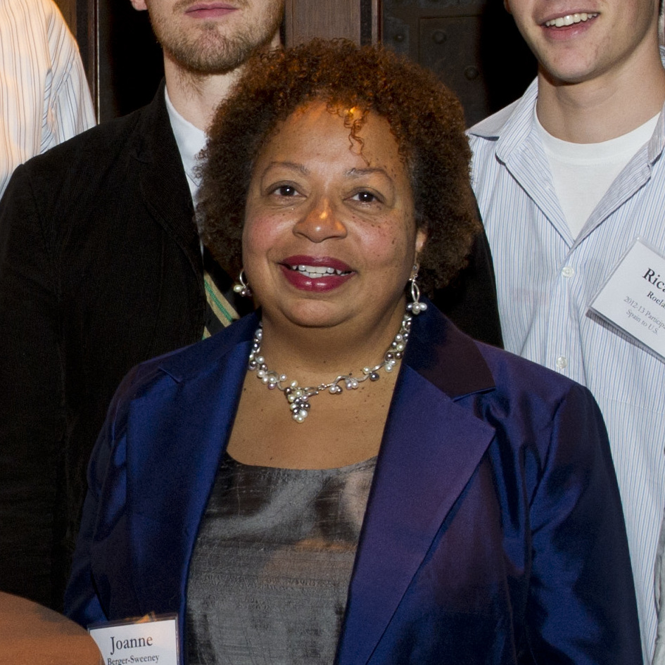 Alexander & David Wisowaty, Adam Hill, Andrew Scott, Joanne Berger-Sweeney, Ricardo Roelas, Jacob Olsen in 2012